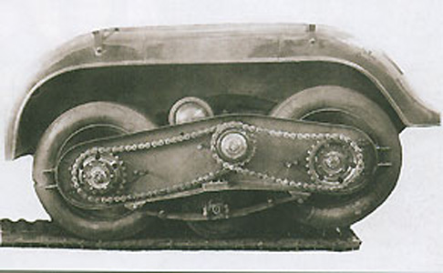 Soviet experimental half-track car GAZ-VM during the state tests, tracks.